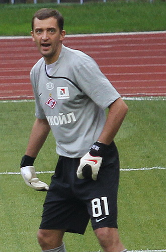 Andrey Dikan